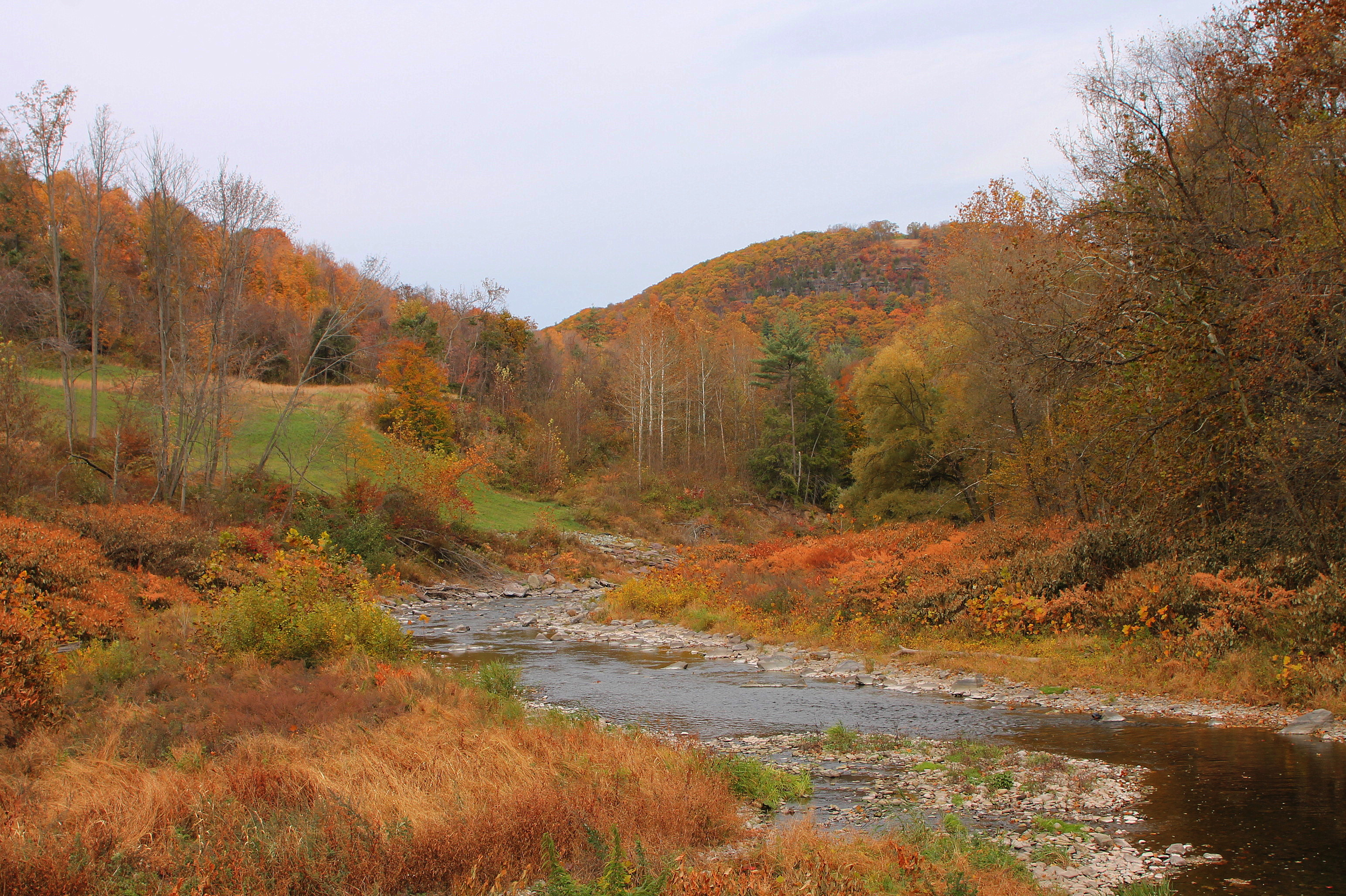 Bowman Creek looking downstream from State Route 3003